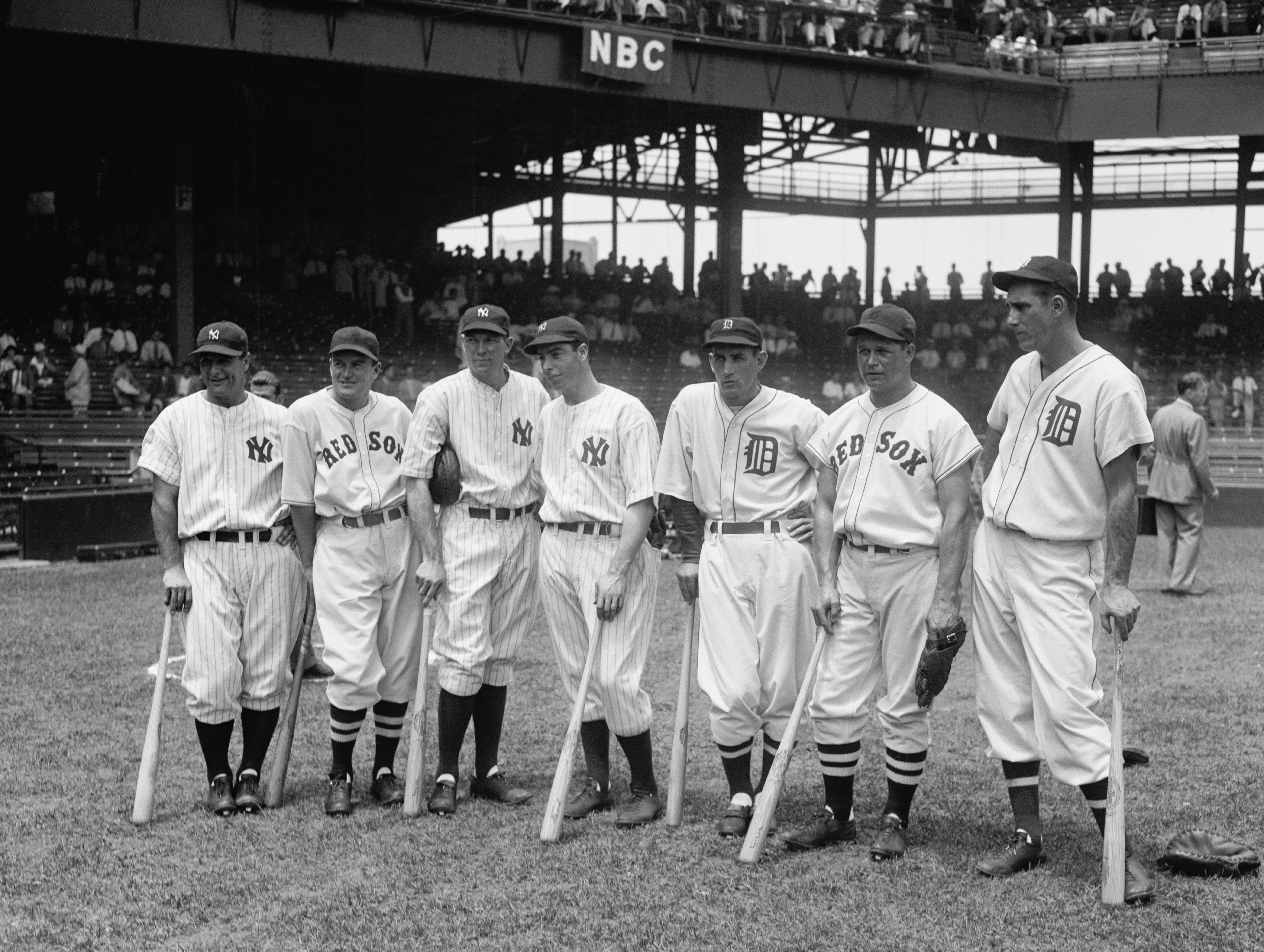 Original title: "Plenty of basehits in these bats" Original description: Washington D.C., July 7. A million dollar base-ball flesh is represented in these sluggers of the two All- Star Teams which met in the 1937 game at Griffith Stadium today. Left to right: Lou Gehrig, Joe Cronin, Bill Dickey, Joe DiMaggio, Charlie Gehringer, Jimmie Foxx, and Hank Greenberg, 7/7/37